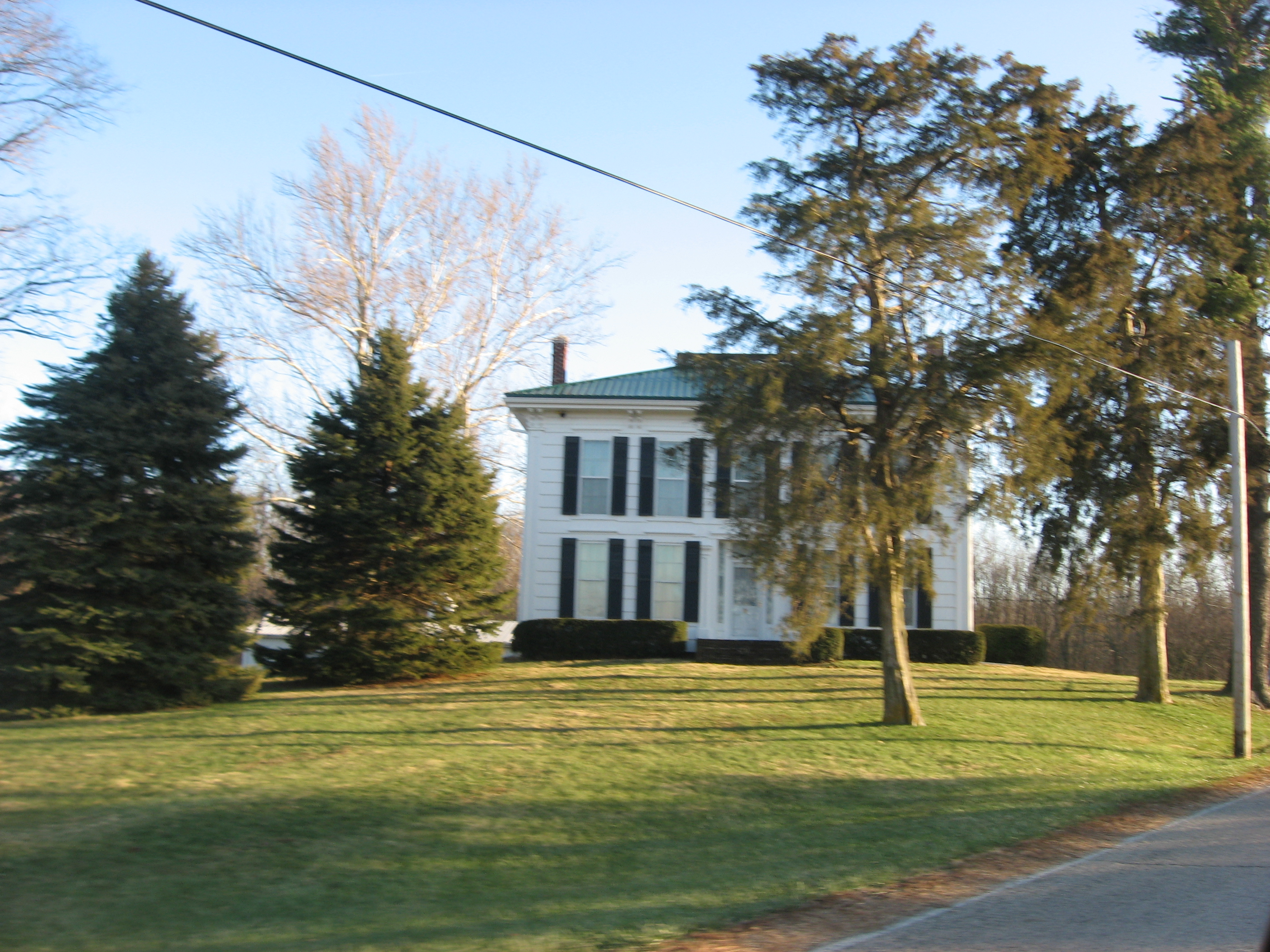 Front of the Dr. Samuel Vaughn Jump House, located on County Road 462E just south of New Burlington in Perry Township, Delaware County, Indiana, United States. Built in 1848, it is listed on the National Register of Historic Places.